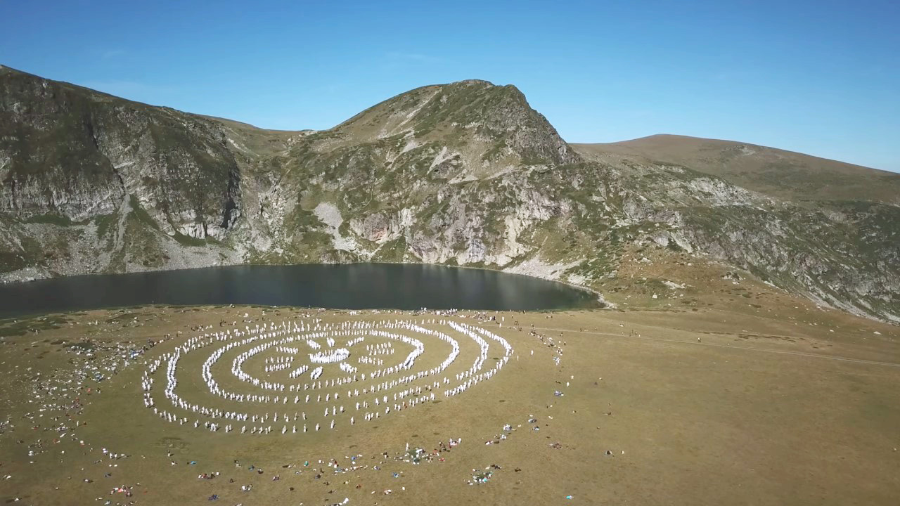 Paneurhythmy in the Rila Mountains, Bulgaria